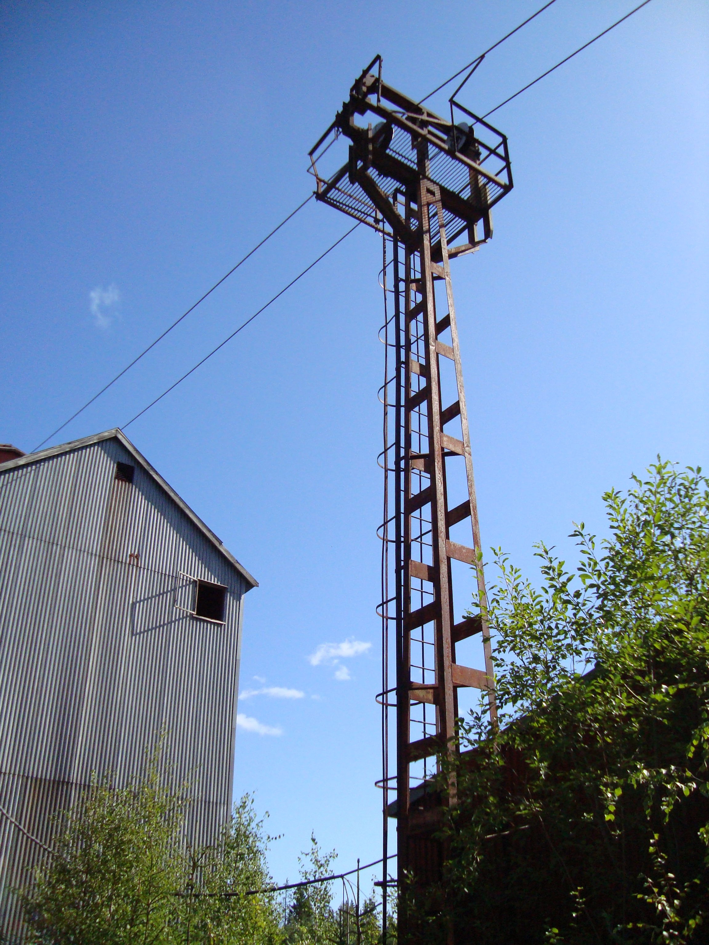 Smältarmossgruvan abandoned iron mine, Garpenberg, Sweden